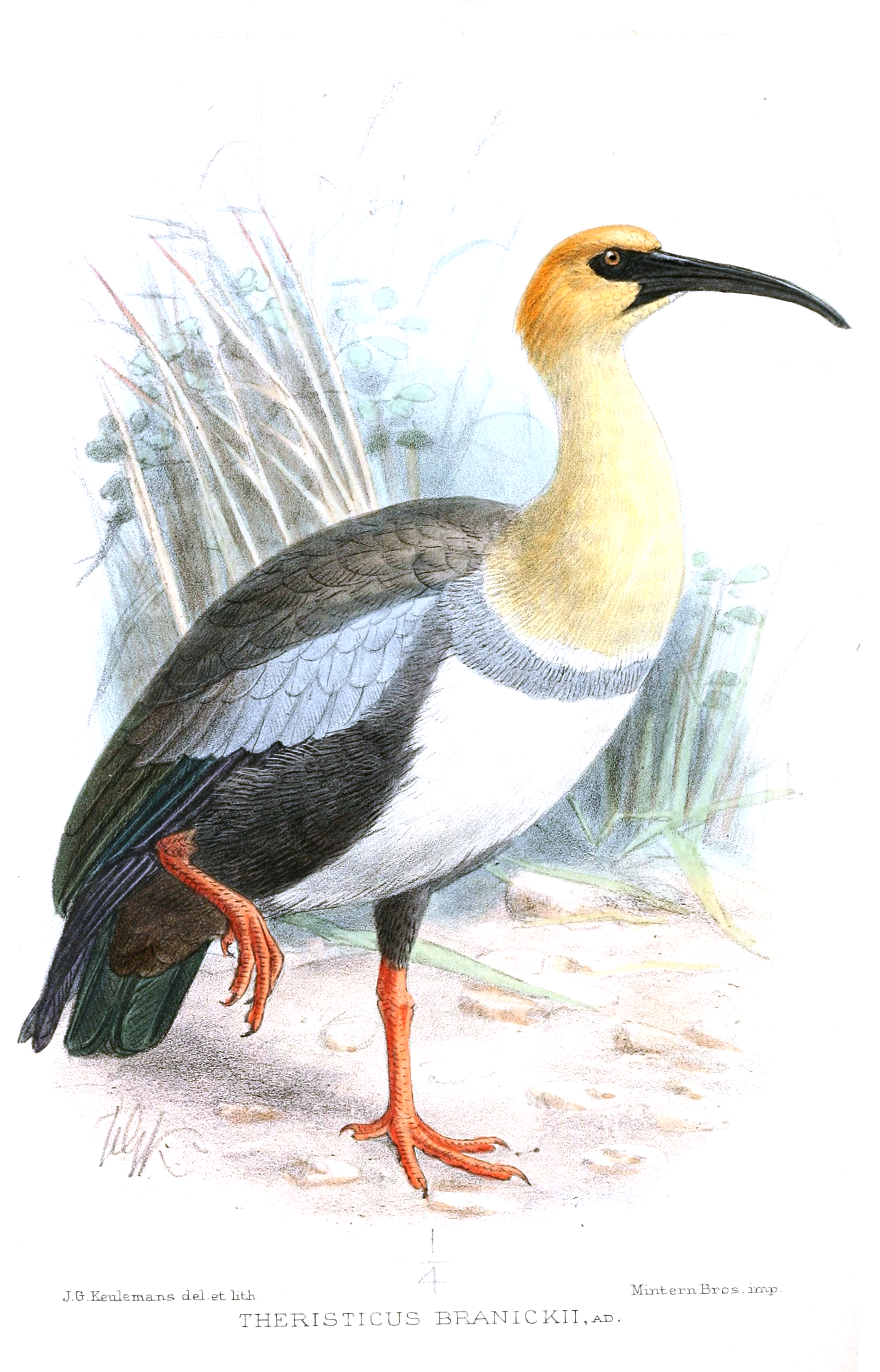 Theristicus branickii